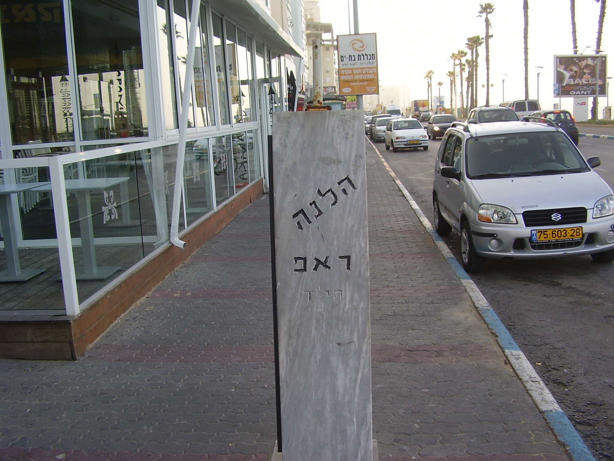 memorial to helena rapp in bat yam